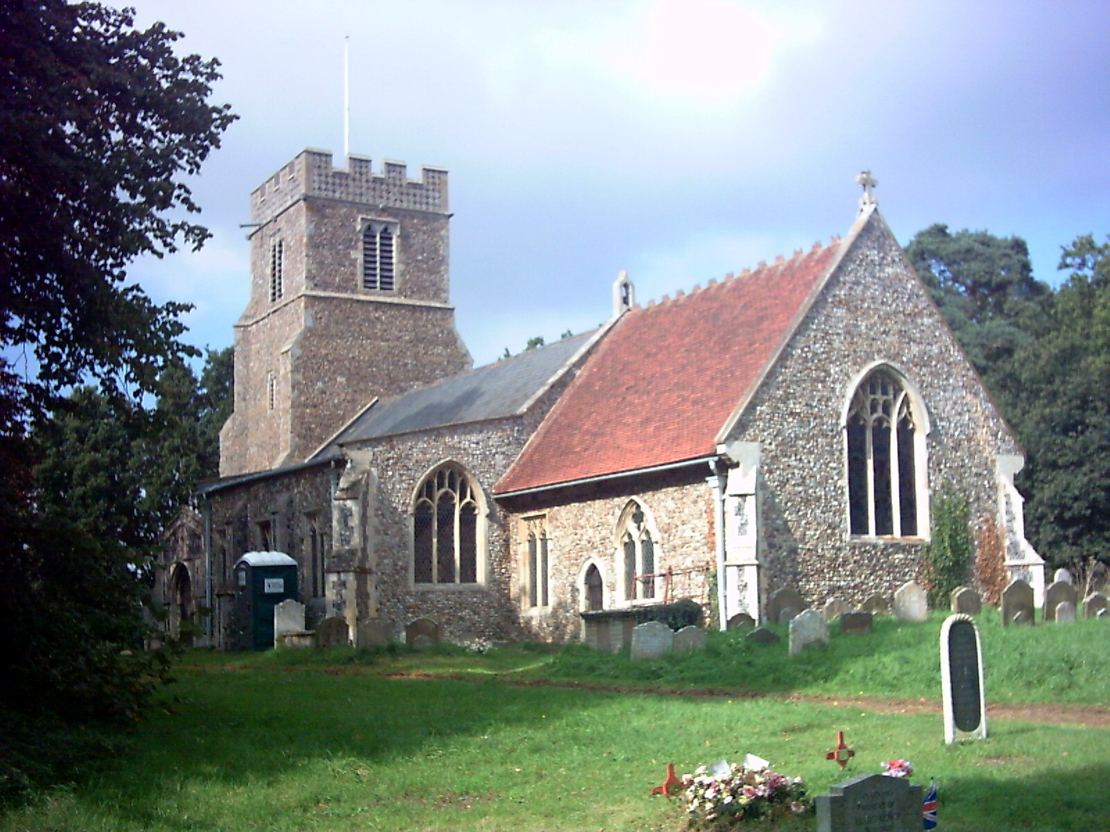 Church of St Andrew in Marlesford, Suffolk, England. A Grade I listed medieval church.